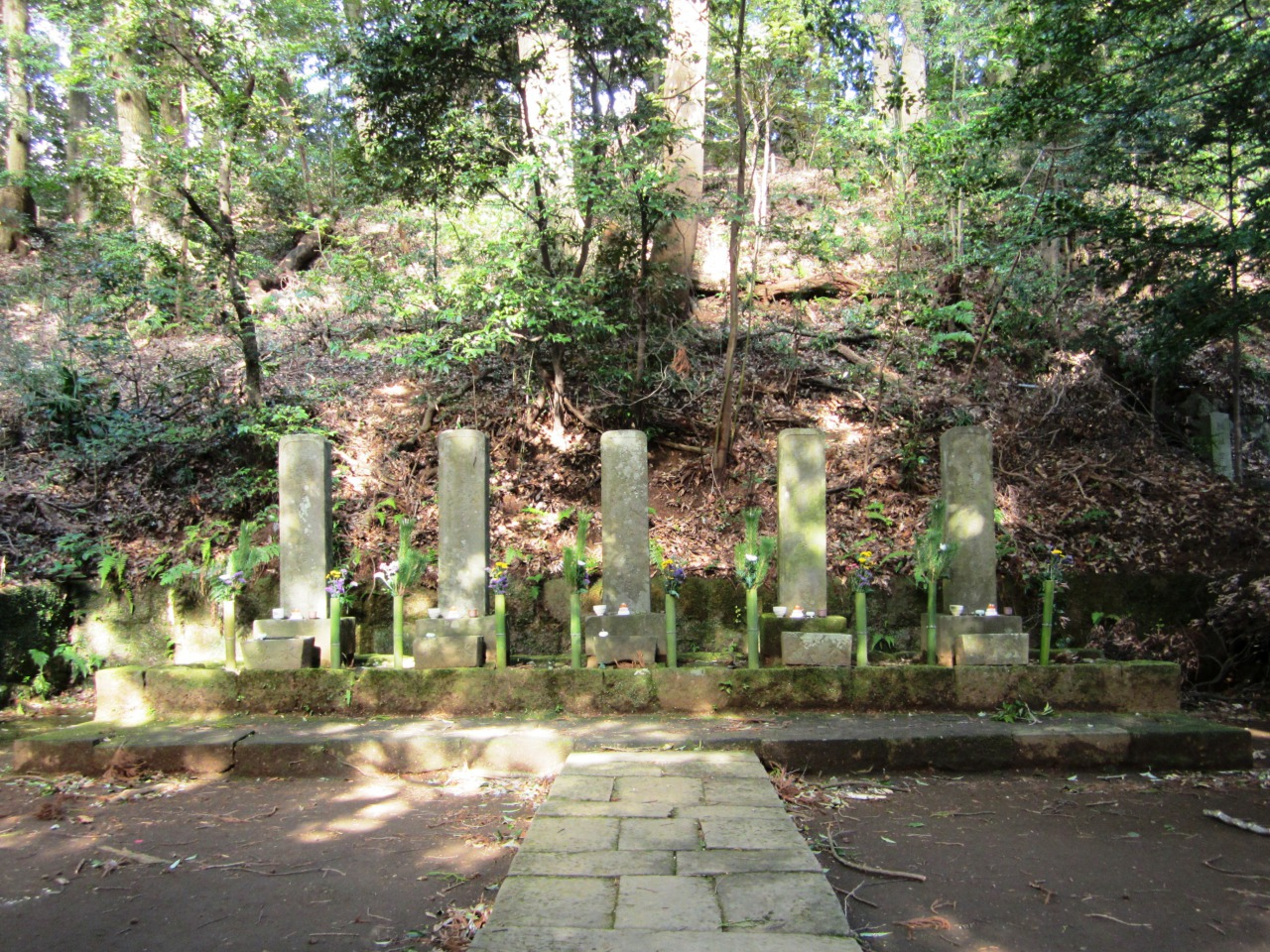 Late Hōjō clan's graves at Sōun-ji in Hakone, Kanagawa. Right to left, Sōun, Ujitsuna, Ujiyasu, Ujimasa, Ujinao's graves.